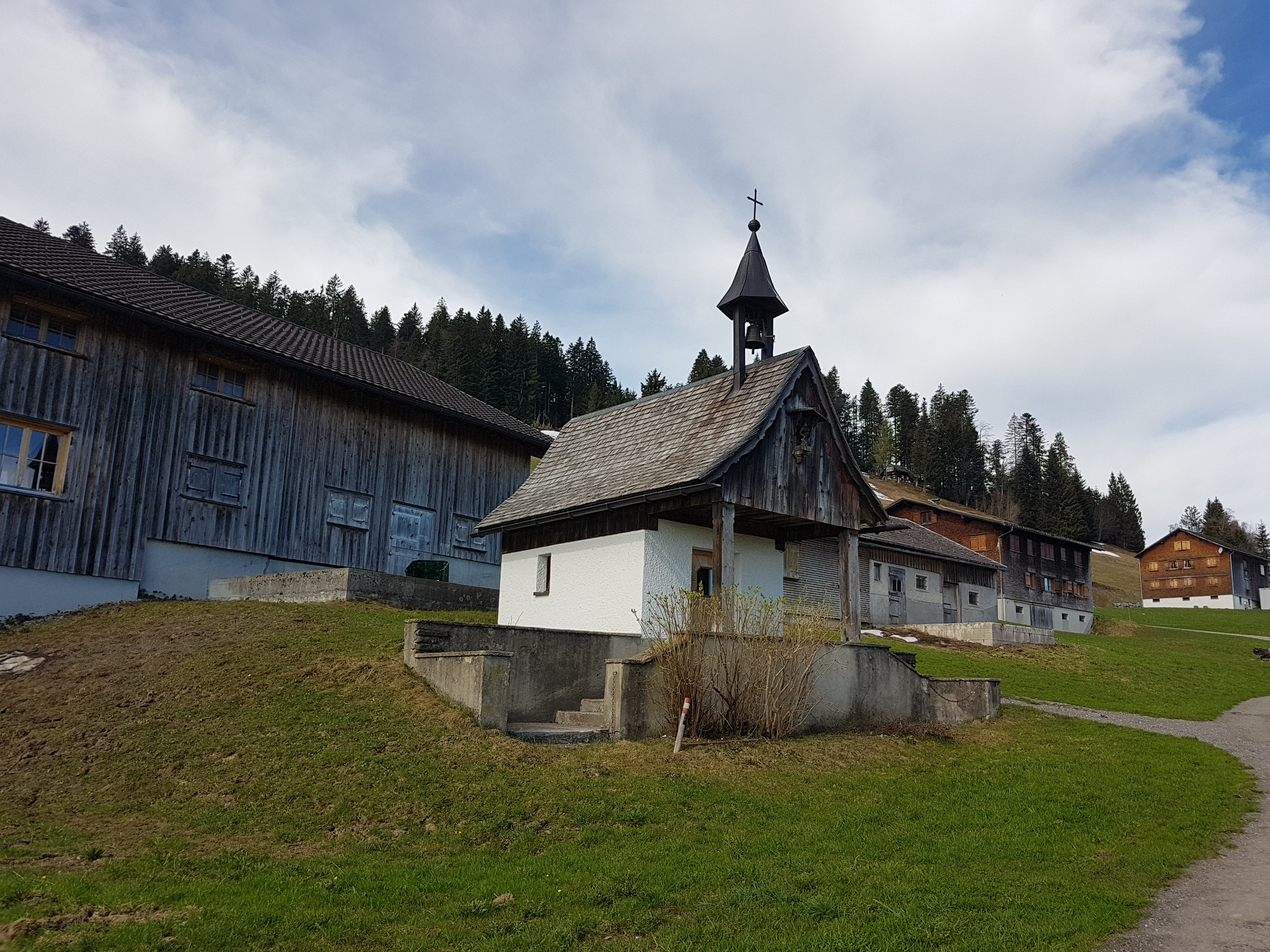 Chapel hl. Maria in Schwarzenberg, district Weisstanne in Vorarlberg, Austria. Built in 1950, under monument protection.